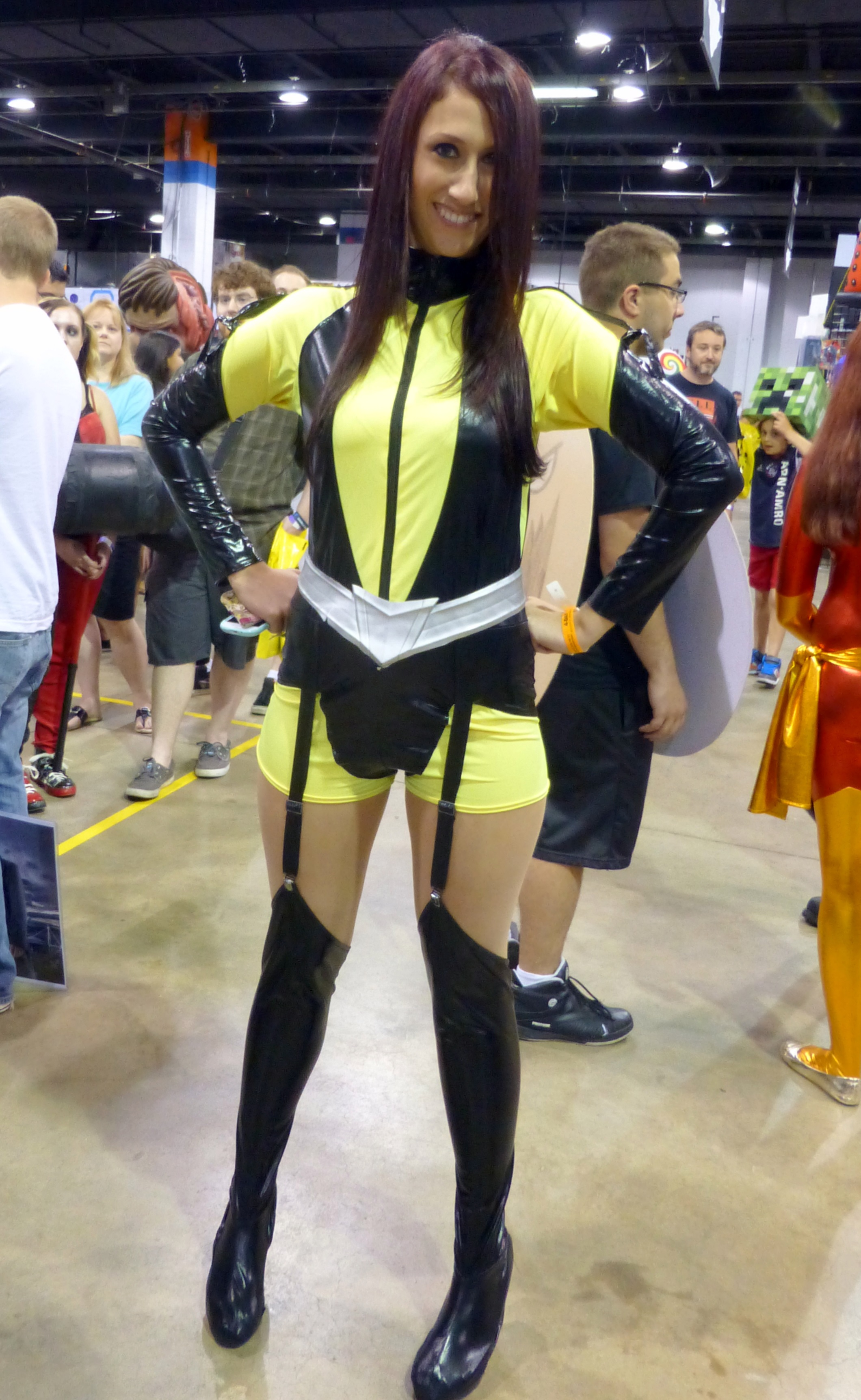 Silk Spectre from Watchmen Cosplay at the 2013 Wizard World Chicago.